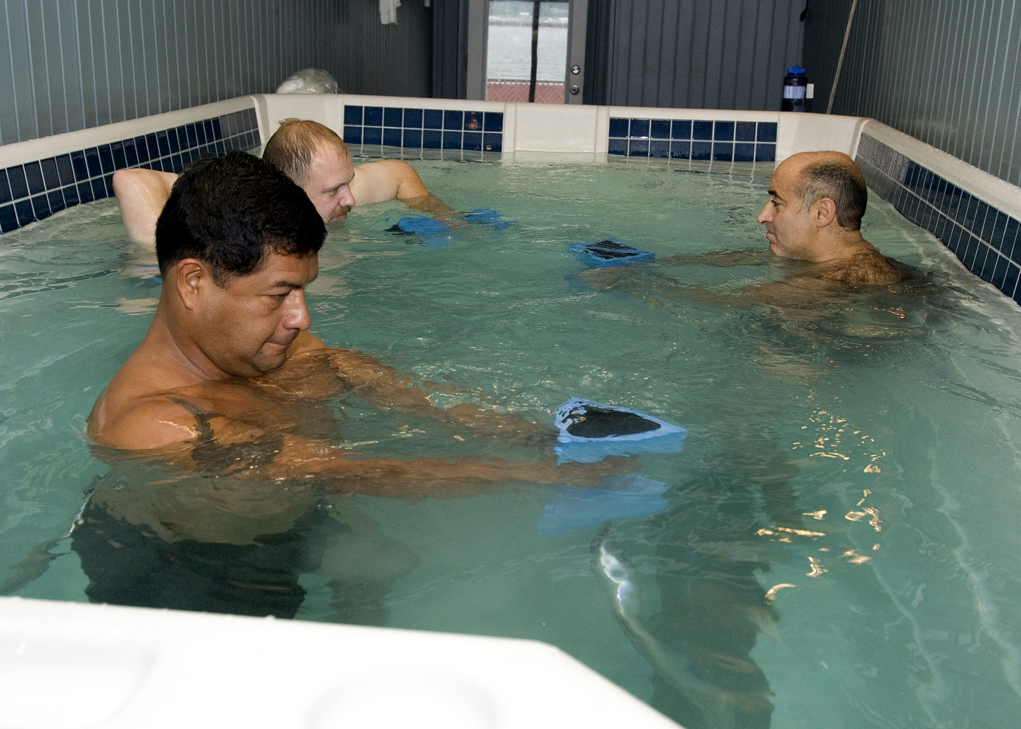 NORFOLK, Va. (Sept. 10, 2008) Special Warfare Combatant-craft Crewmen (SWCC) and support staff use small buoyant "dumbbells" in a hydrotherapy pool at Naval Special Warfare Group (NSWG) 4 to increase strength and range of motion in muscles and joints. The pool is used as a therapy tool in conjunction with the Human Performance Initiative already in place at NSWG-4, designed to prevent and rehabilitate injuries caused by a special boat operator's daily duties. (U.S. Navy photo by Mass Communication Specialist 3rd Class Robyn Gerstenslager/Released)